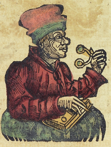 Illustration from the Nuremberg Chronicle (Latin copy in Sao Paulo)